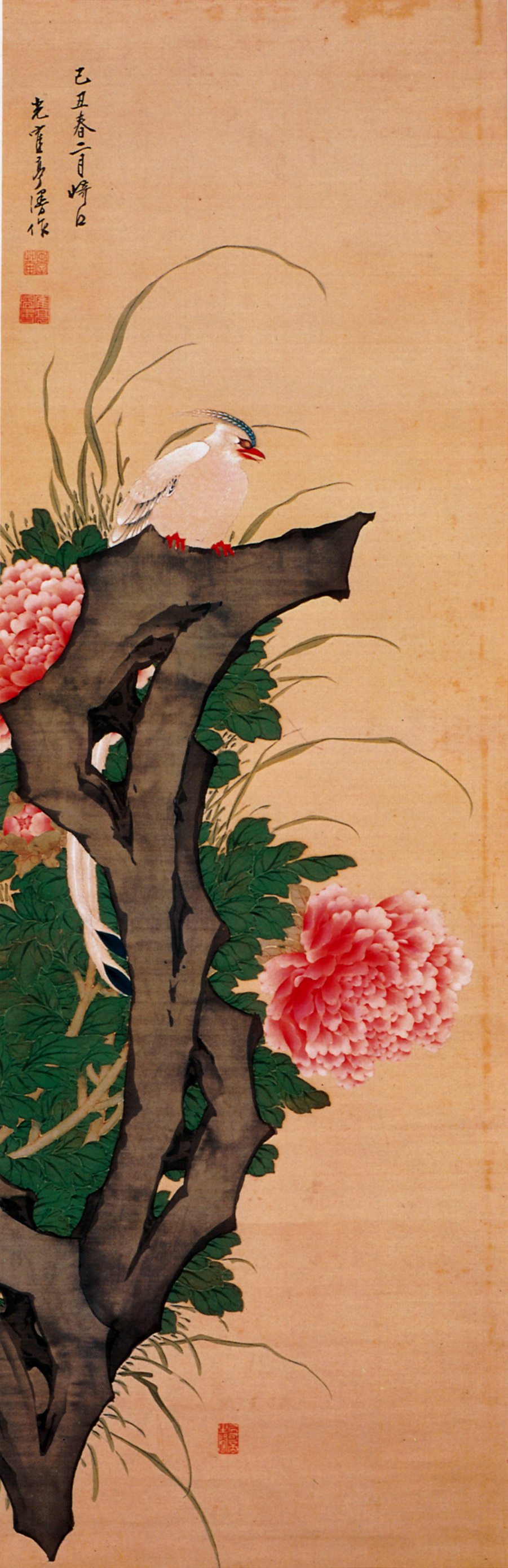 Kakutei,Peonies_and_Red_biled_Blue_magpie,A_hanging_scroll,color_on_silk,Middle_Edo_period,dated_1769,Kobe_City_Museum.